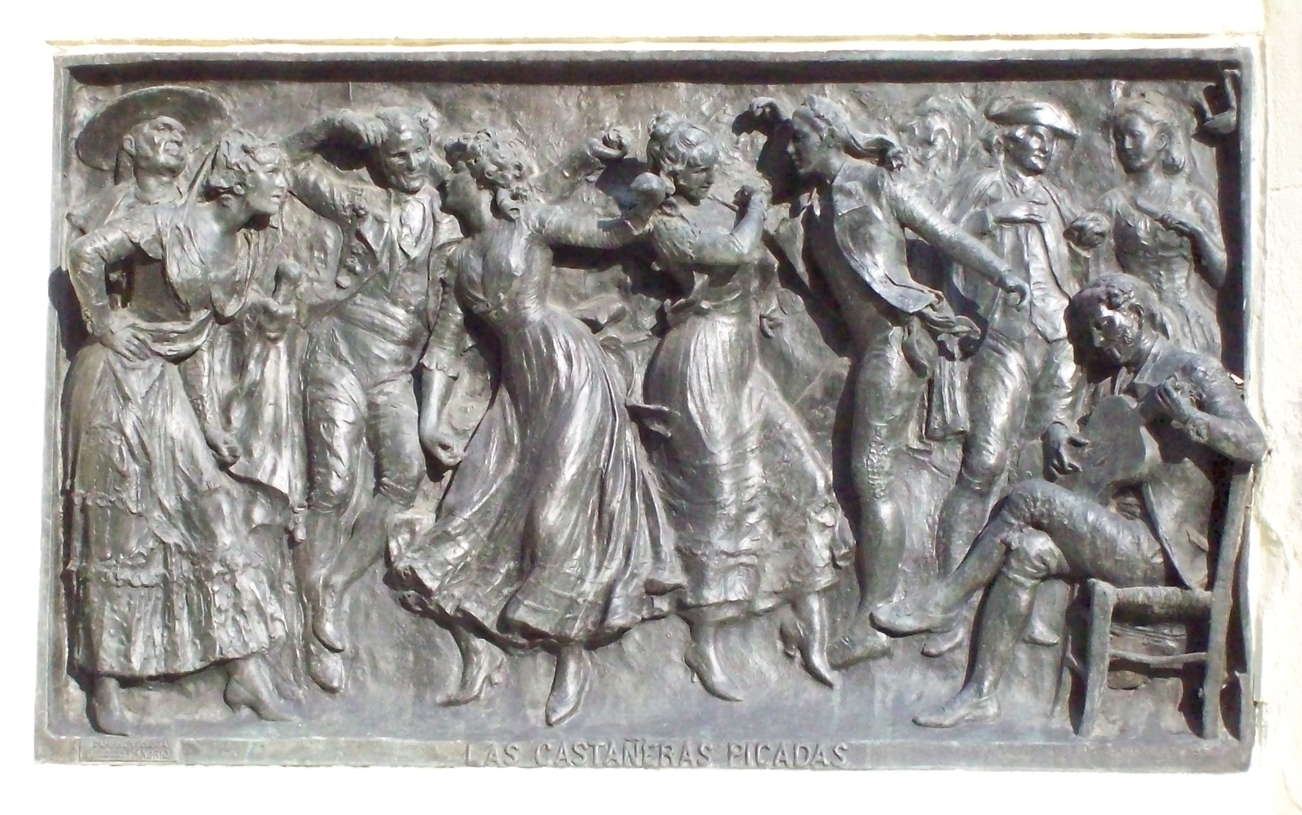 Bronze relief representing Las castañeras picadas. Detail of Monument to the Madrilenian Sainete Writers in Madrid (Spain).